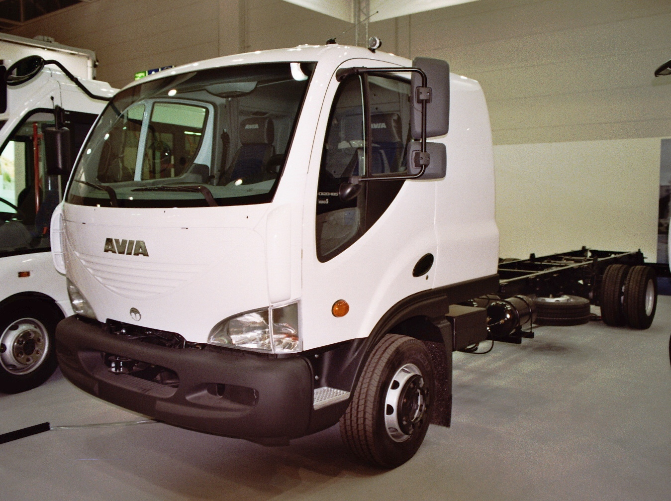 Avia D light truck, built 2012, photo taken at exhibition IAA 2012 in Hanover, Germany.